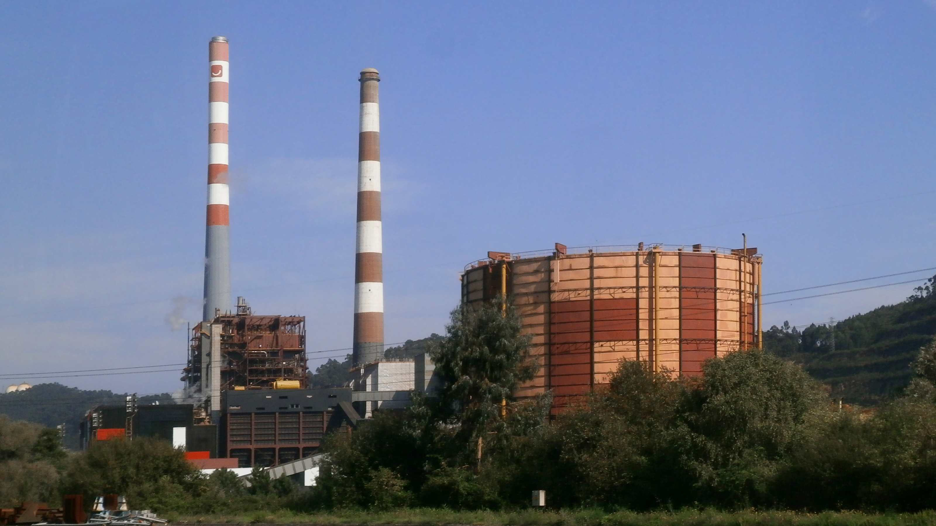 Power station of Aboño, near Gijón, Spain. It burns coal and blast furnace gas (the gasholder is at right).